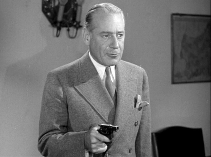 Henry O'Neill in "Shadow of the Thin Man" film